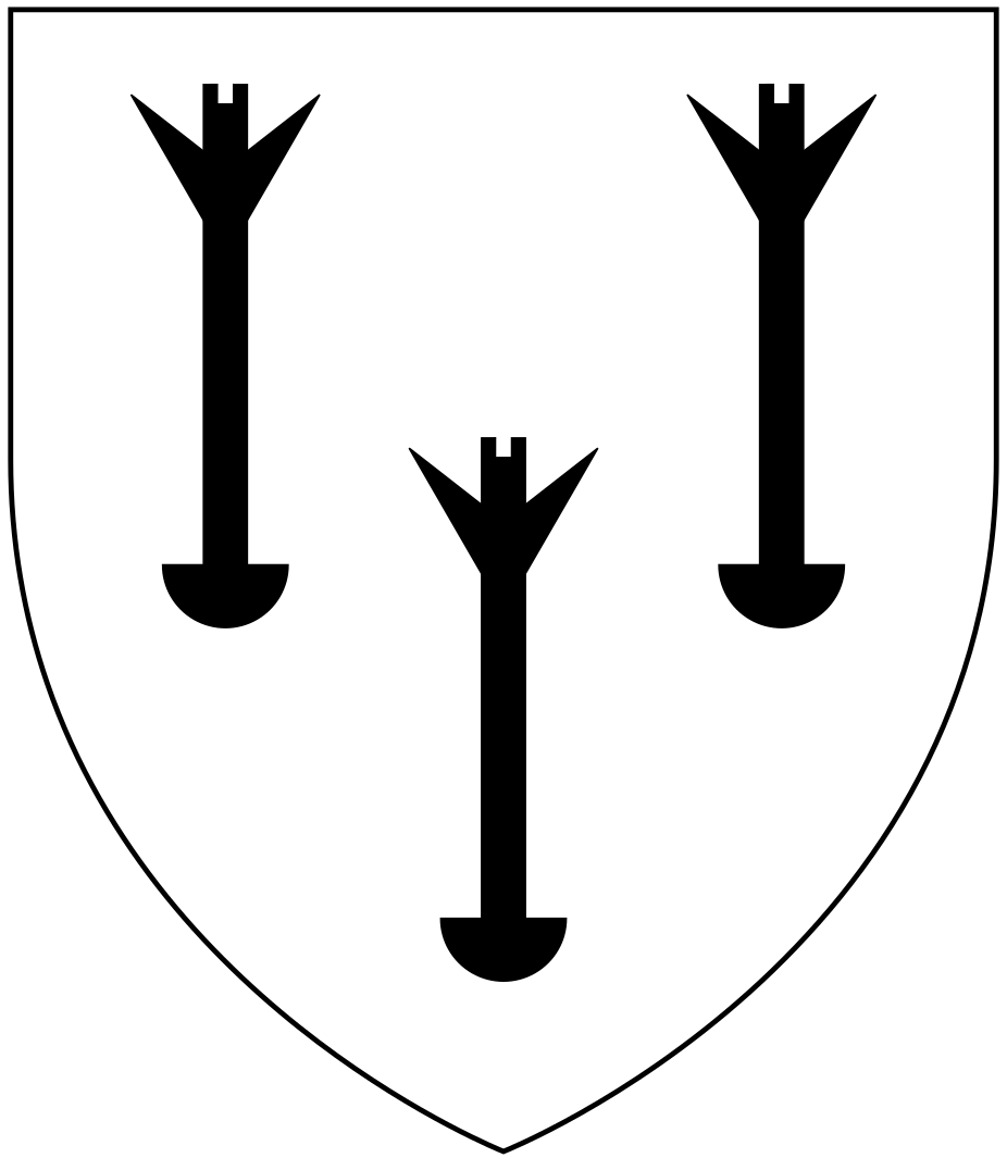 Arms of Risdon of Winscott and Bableigh, Devon (possibly with inverted tinctures, as shown on monument to Thomas Chafe in the parish church of St Giles in the Wood: Argent, three birdbolts sable